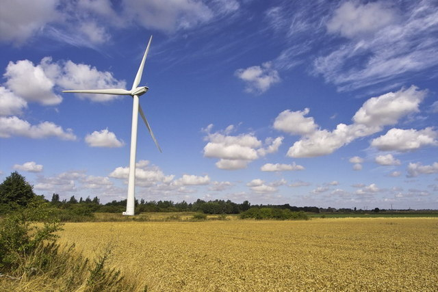 Wind Turbine